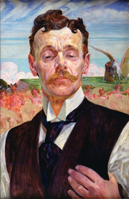 Jacek Malczewski, Portrait of a Man (1913), Jacek Malczewski Museum in Radom, Poland